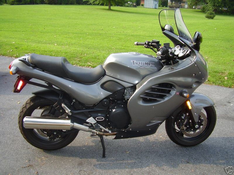 2003 Triumph Trophy 1200 Credit: Juda Engelmayer My First TriumphJuda S. Engelmayer 06:32, 28 January 2007 (UTC) Did not like it as I do the Guzzis Credit: Juda S. Engelmayer